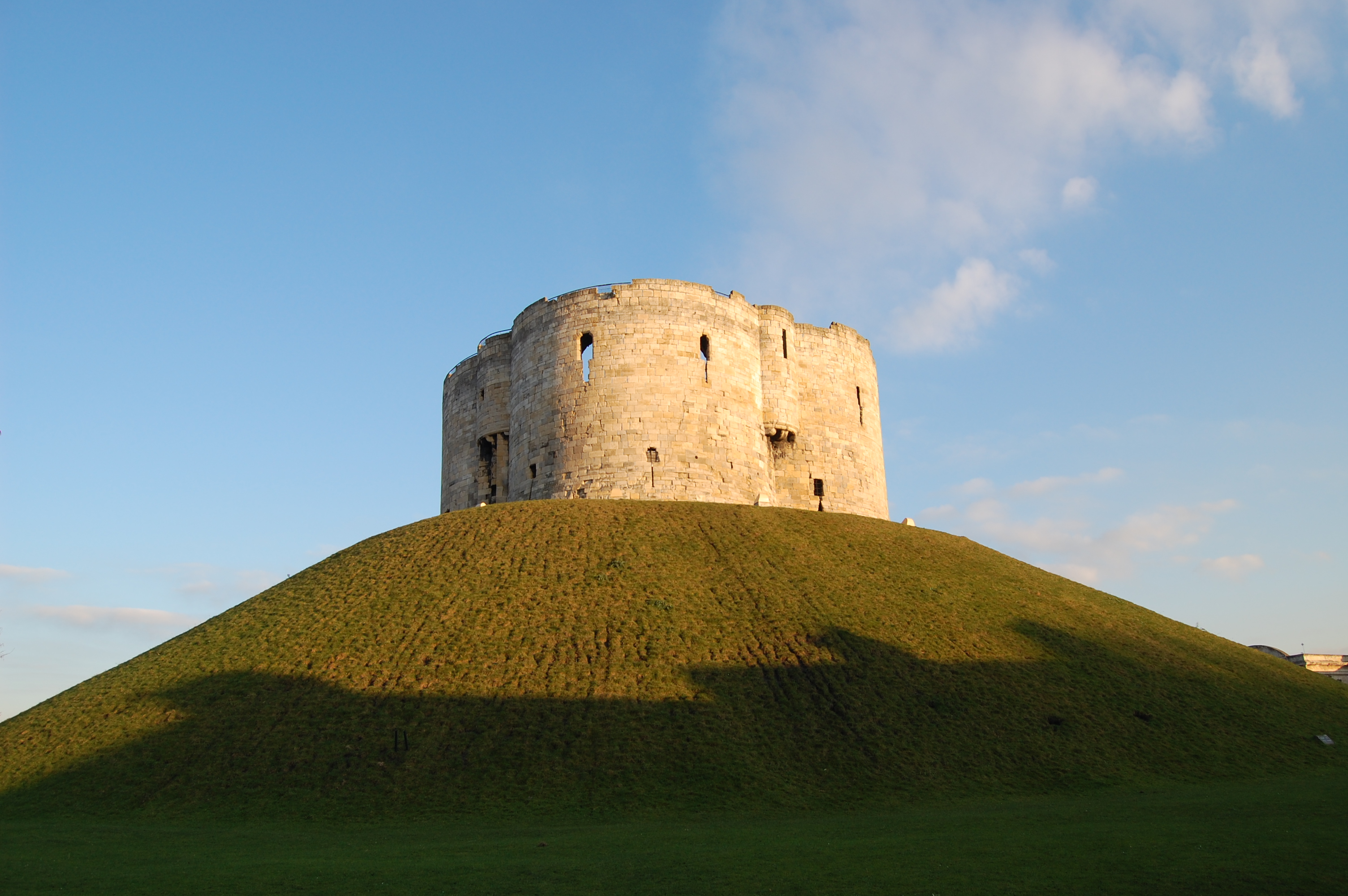 Ruins of York Castle / Clifford's Tower.